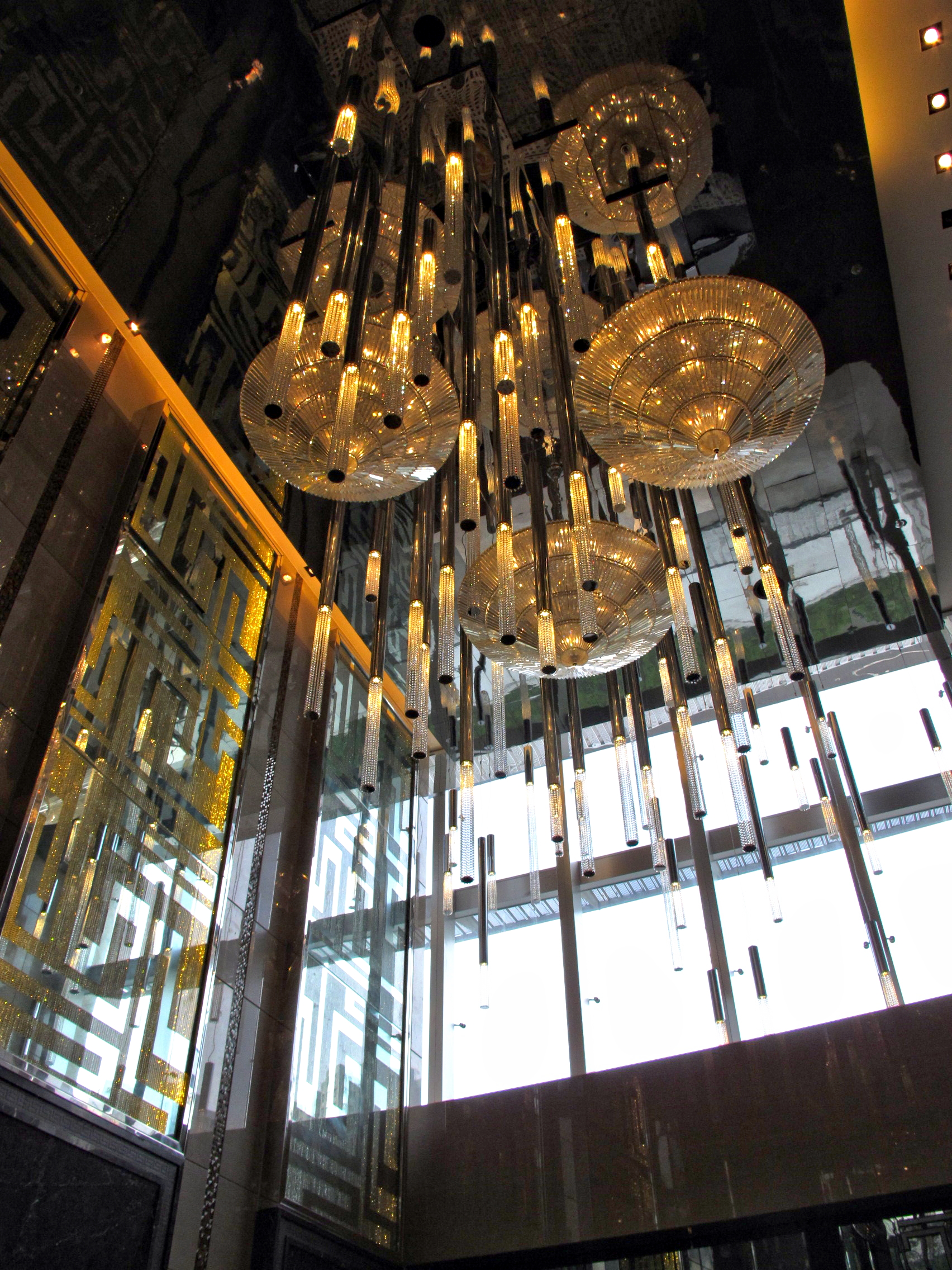 Festival City Lift Lobby1 Ceiling